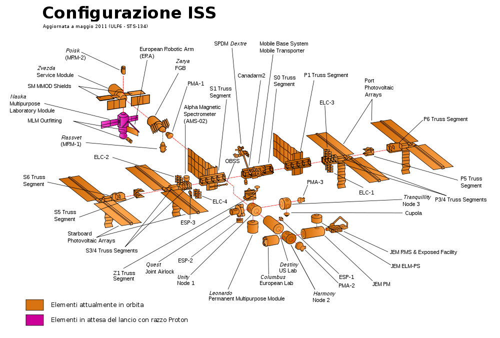 The ULF6 configuration of the International Space Station following the addition of the Alpha Magnetic Spectrometer and ExPrESS Logistics Carrier 3, launched by the Space Shuttle Endeavour on STS-134.